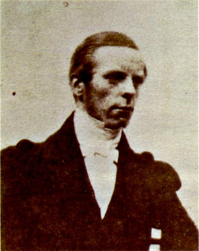 Portrait of a Man